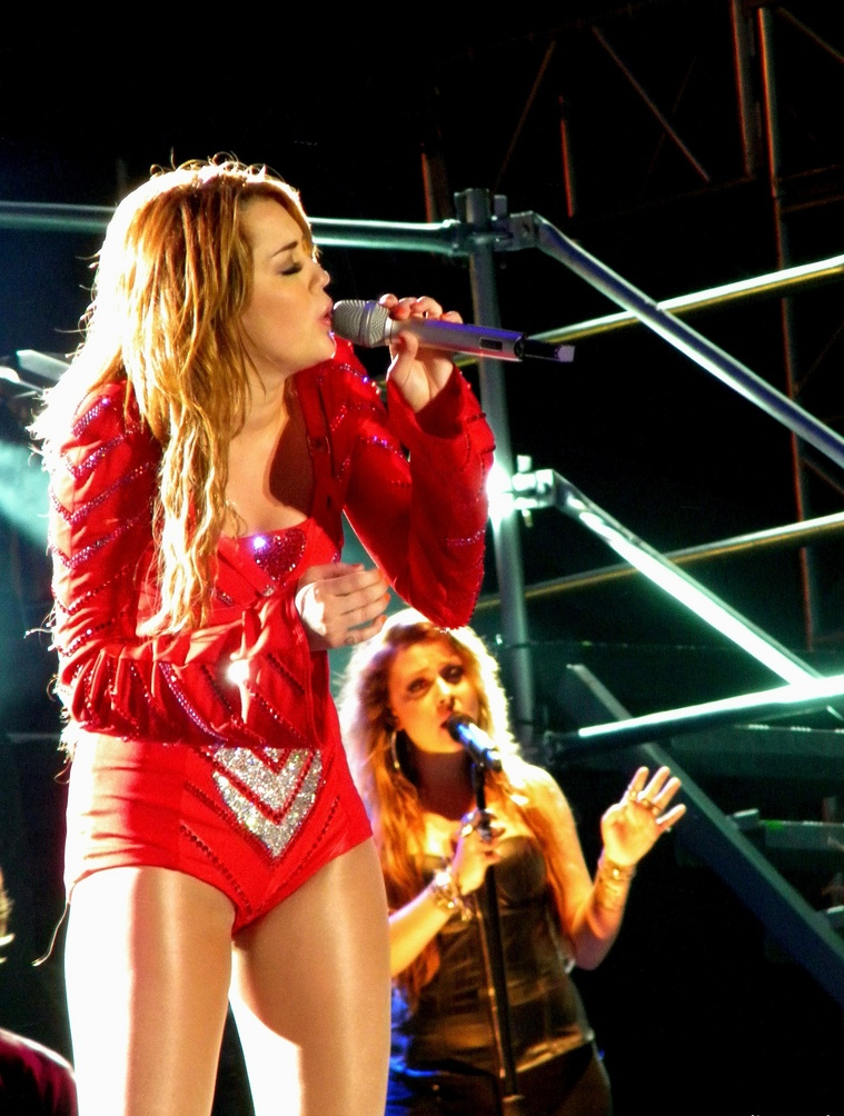 Pop singer Miley Cyrus performing in São Paulo, Brazil as part of her Gypsy Heart Tour in 2011.